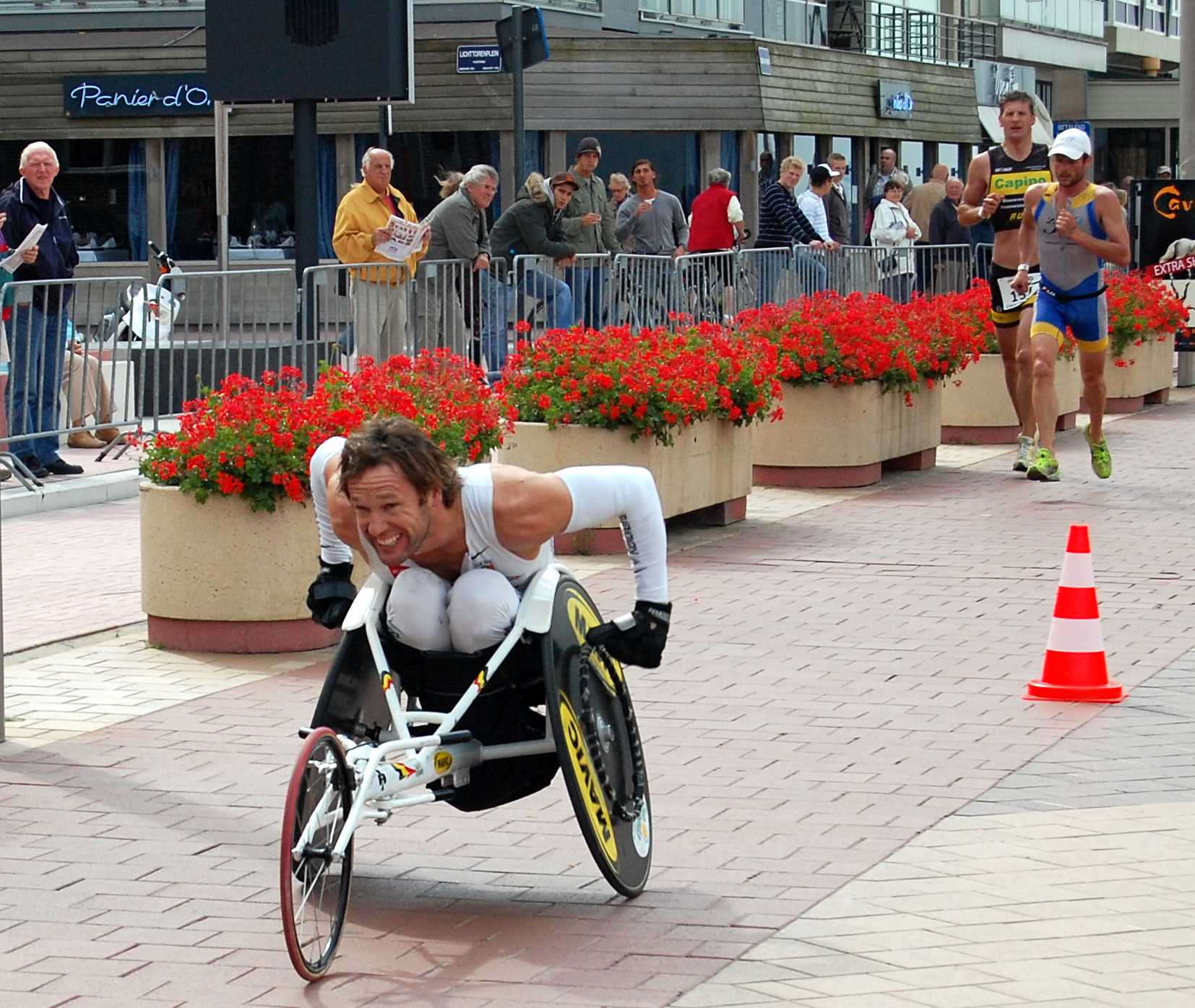 Marc Herremans, triathlete in the athletes with a disability (AWAD) category, competing in the triathlon of Knokke, Belgium.